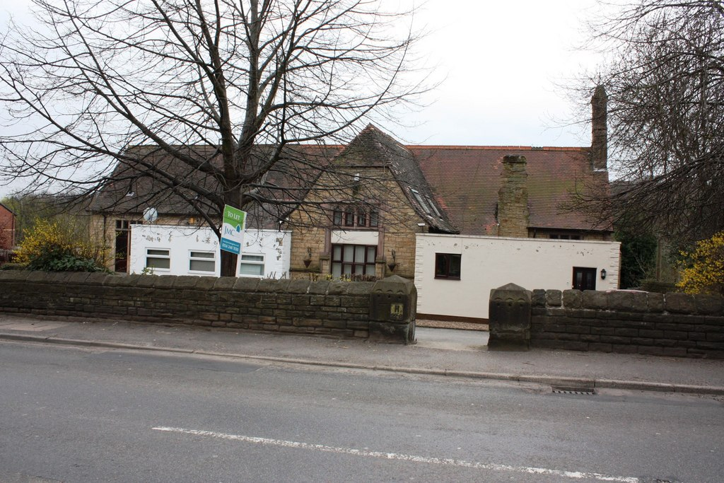 Converted School